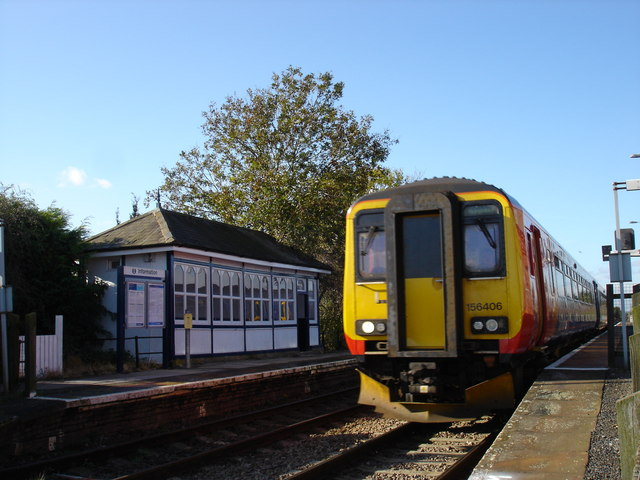 Class 156 unit 156406 passing through Aslockton railway station The white station building is on the platform for trains to Nottingham. The train in the picture is not a "stopper" - it was travelling at about 60 mph when the photo was taken.